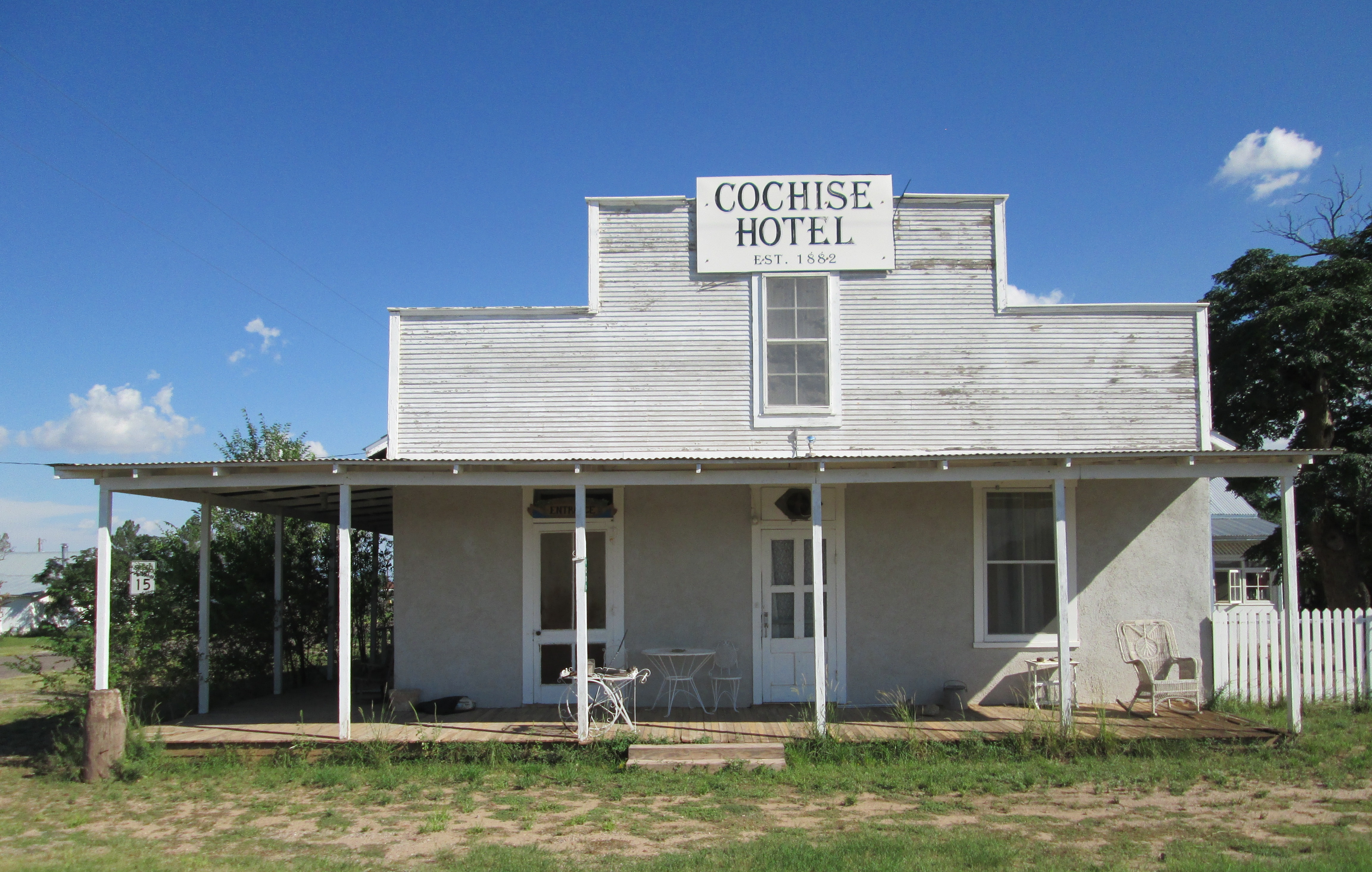 The Cochise Hotel in the town of Cochise, Arizona. Built in 1882.